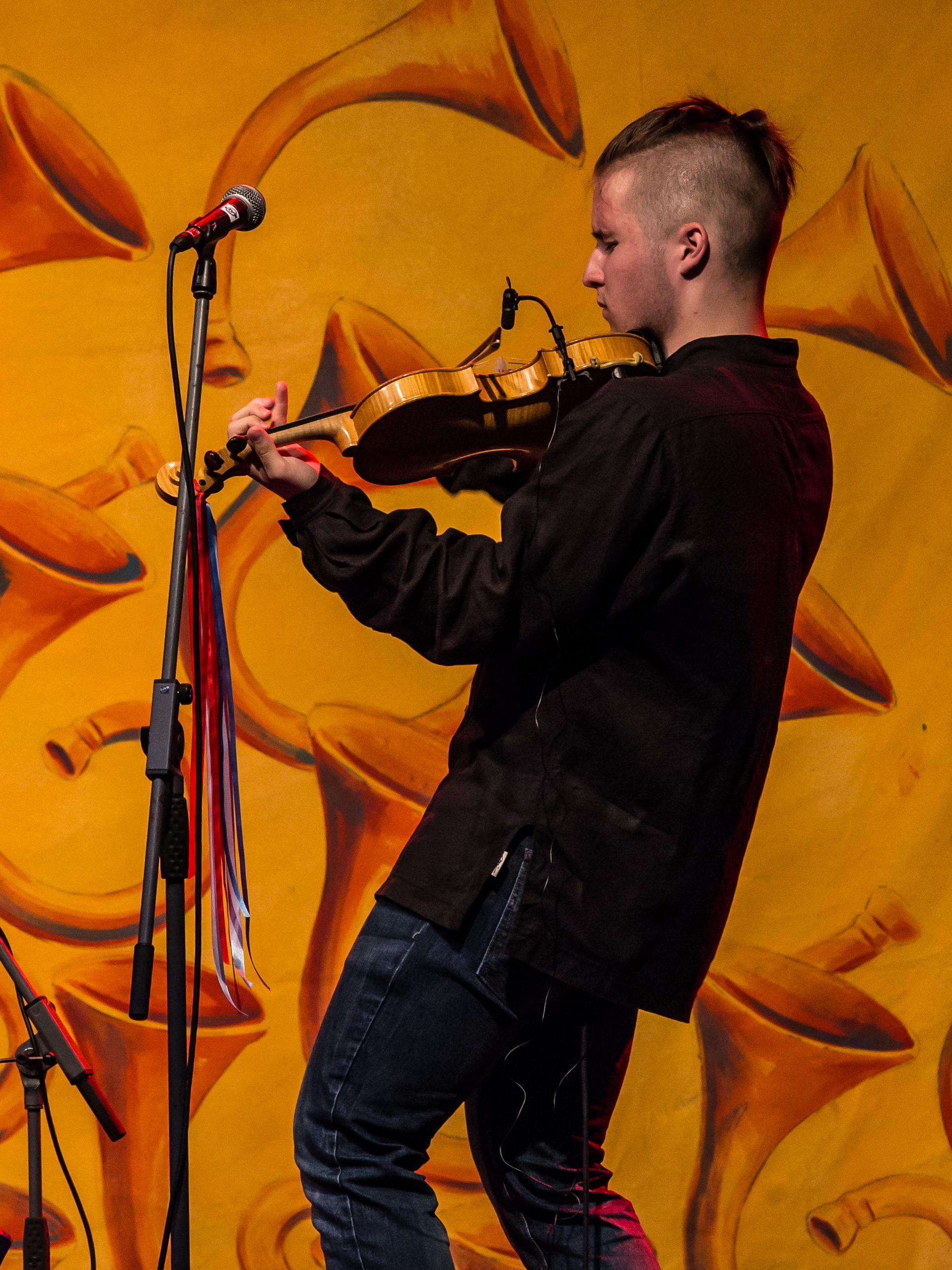 Polish folk band Kapela Maliszów at the Rudolstadt Festival 2016